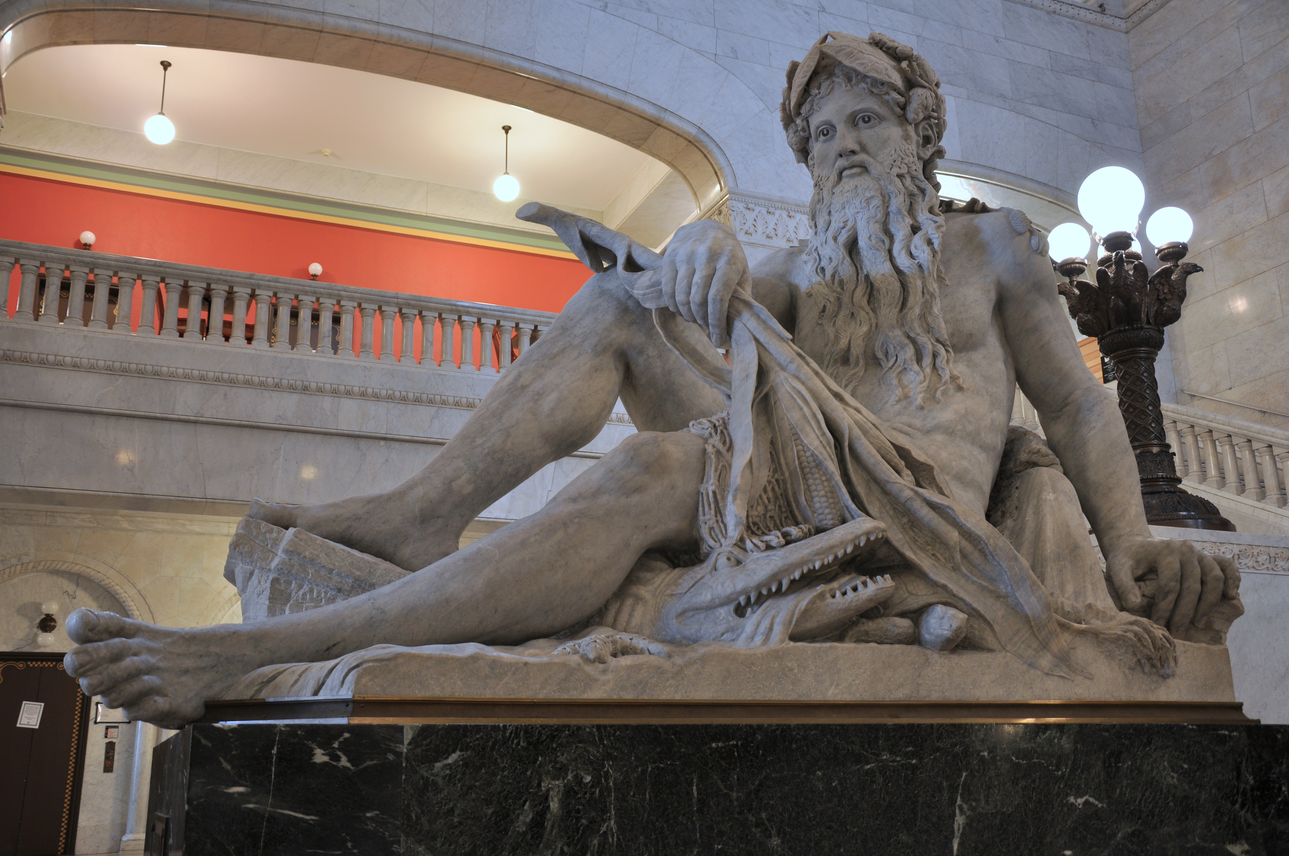 The Neptunian figure of the Father of Waters sits atop articles representing the river, the most prominent of which is the Louisiana alligator.